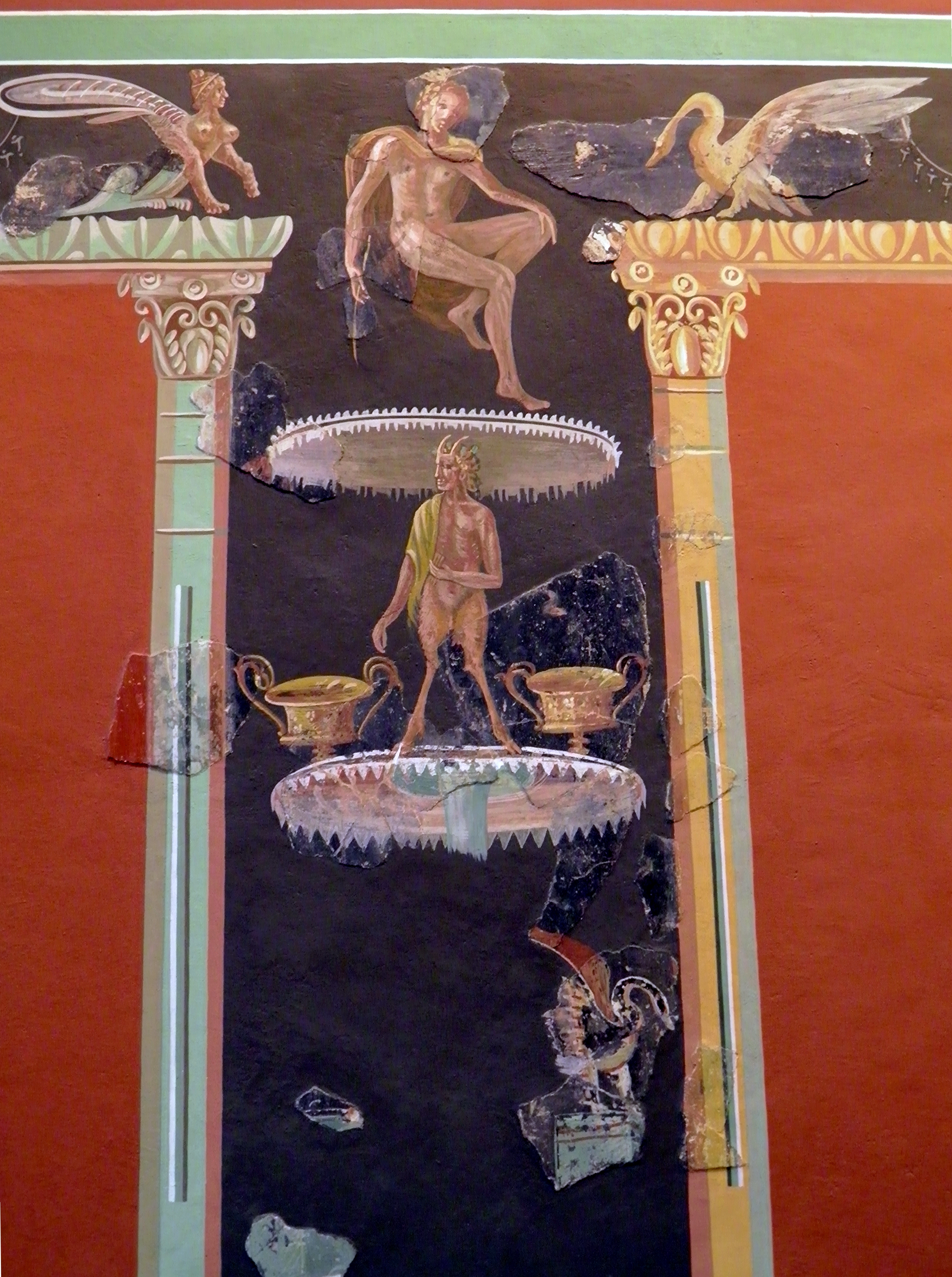 Wall painting with Dionysian scenes from a luxurious 3rd-century AD Roman villa excavated to the south of the cathedral in Cologne (site of the ancient city Colonia Claudia Ara Agrippinensium), Romisch-Germanisches Museum (Romano-Germanic Museum), Cologne.